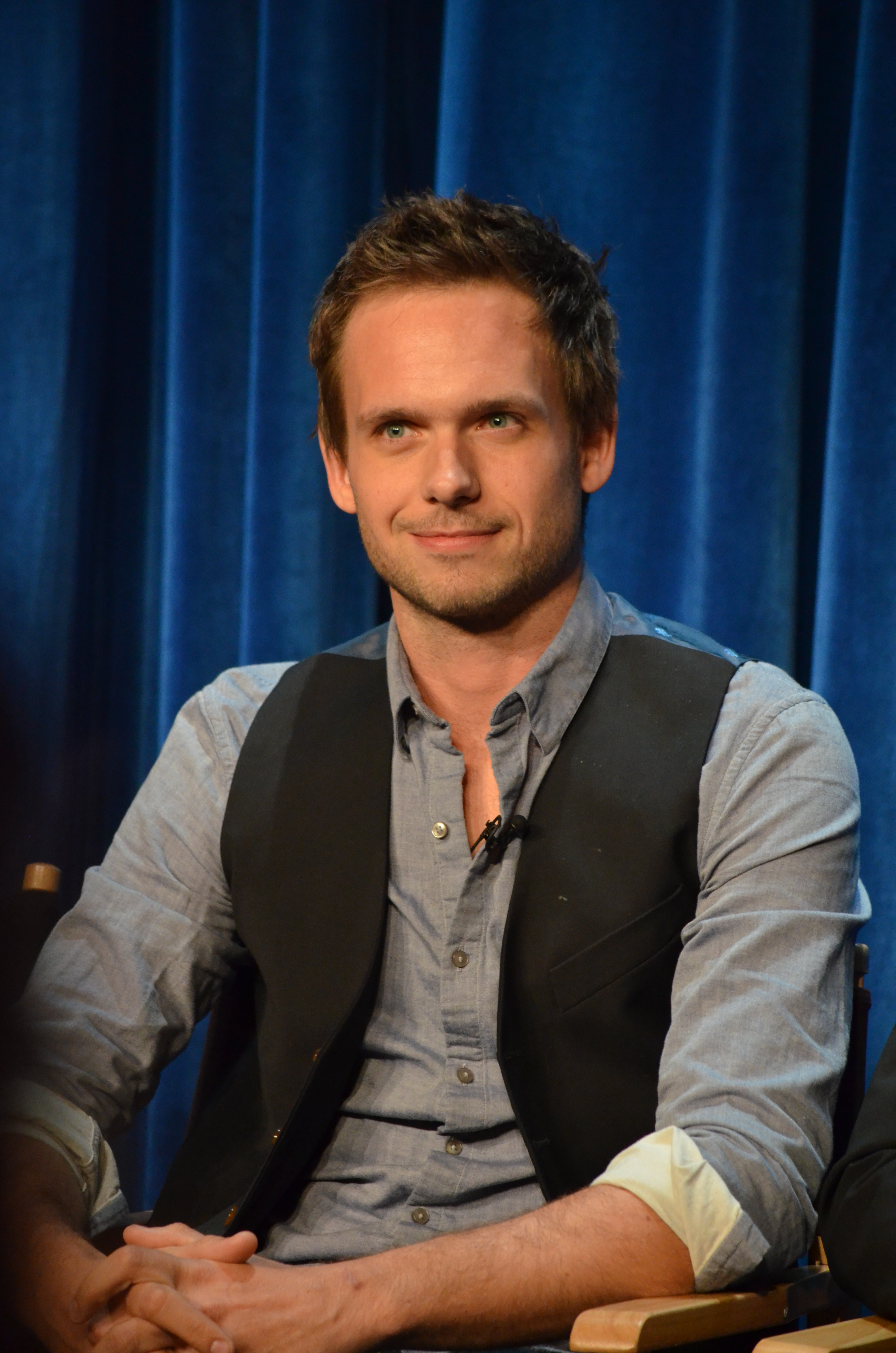 Patrick J Adams at a promotional event for the TV show Suits